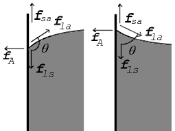 Illustration of forces and contact angle on a tensioned surface. (from GIF image, also created by same uploader) on English Wikipedia).